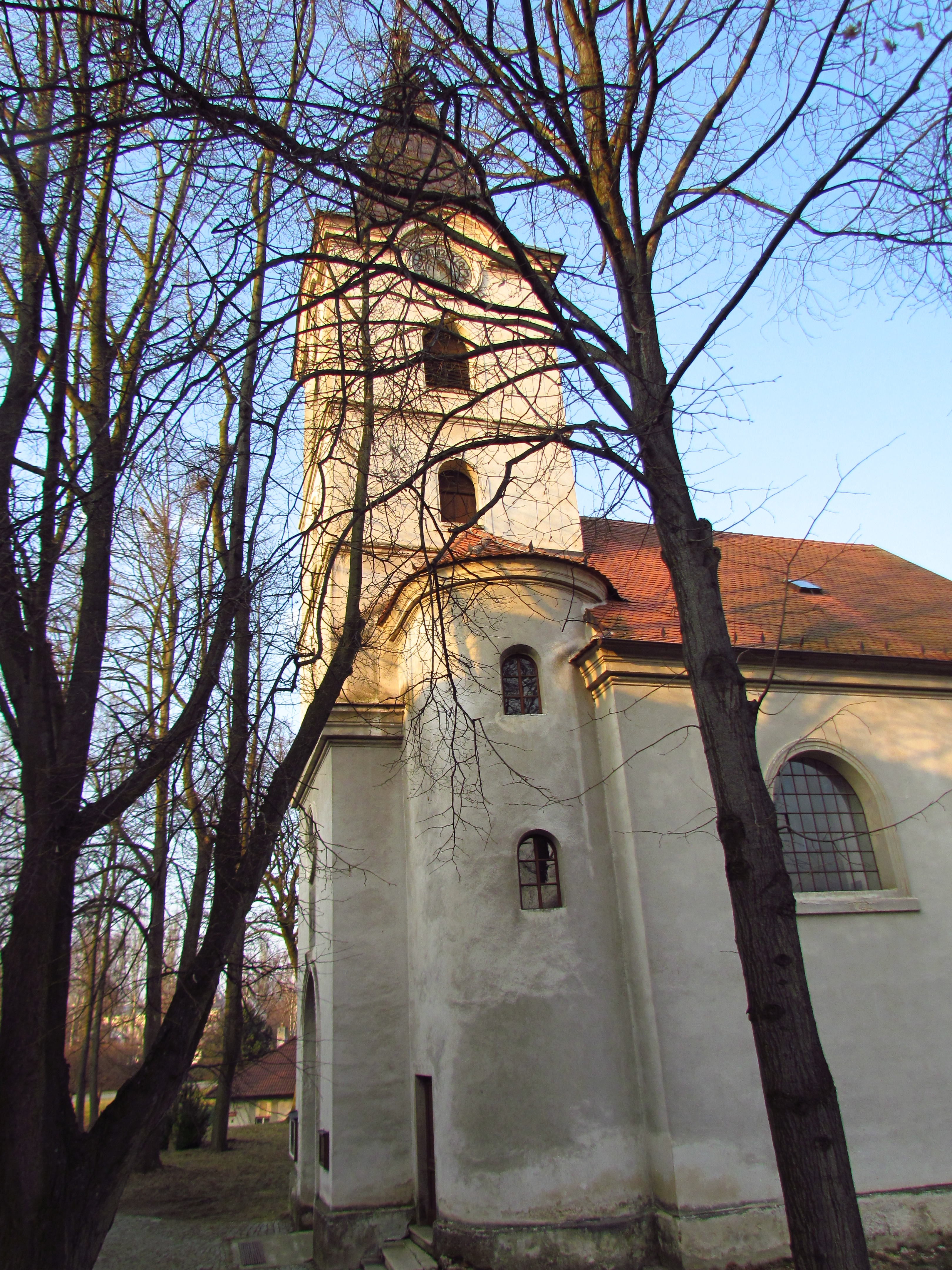 Tower of Church of Holy Name in Okříšky, Třebíč District.